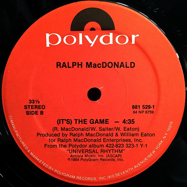 Side B of Kurtis Blow / Ralph MacDonald 12-inch single "Basketball" / "(It's) the Game". This is the 12-inch version of the record that was released in 1984 on Polydor Records.